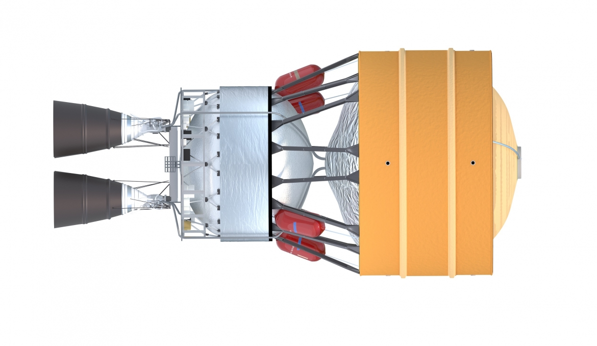 Exploration Upper Stage as of 2019.